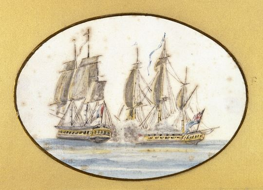 A watercolour of an engagement between a French and a British frigate on 27 June 1798, by an unknown artist (W.R.?)